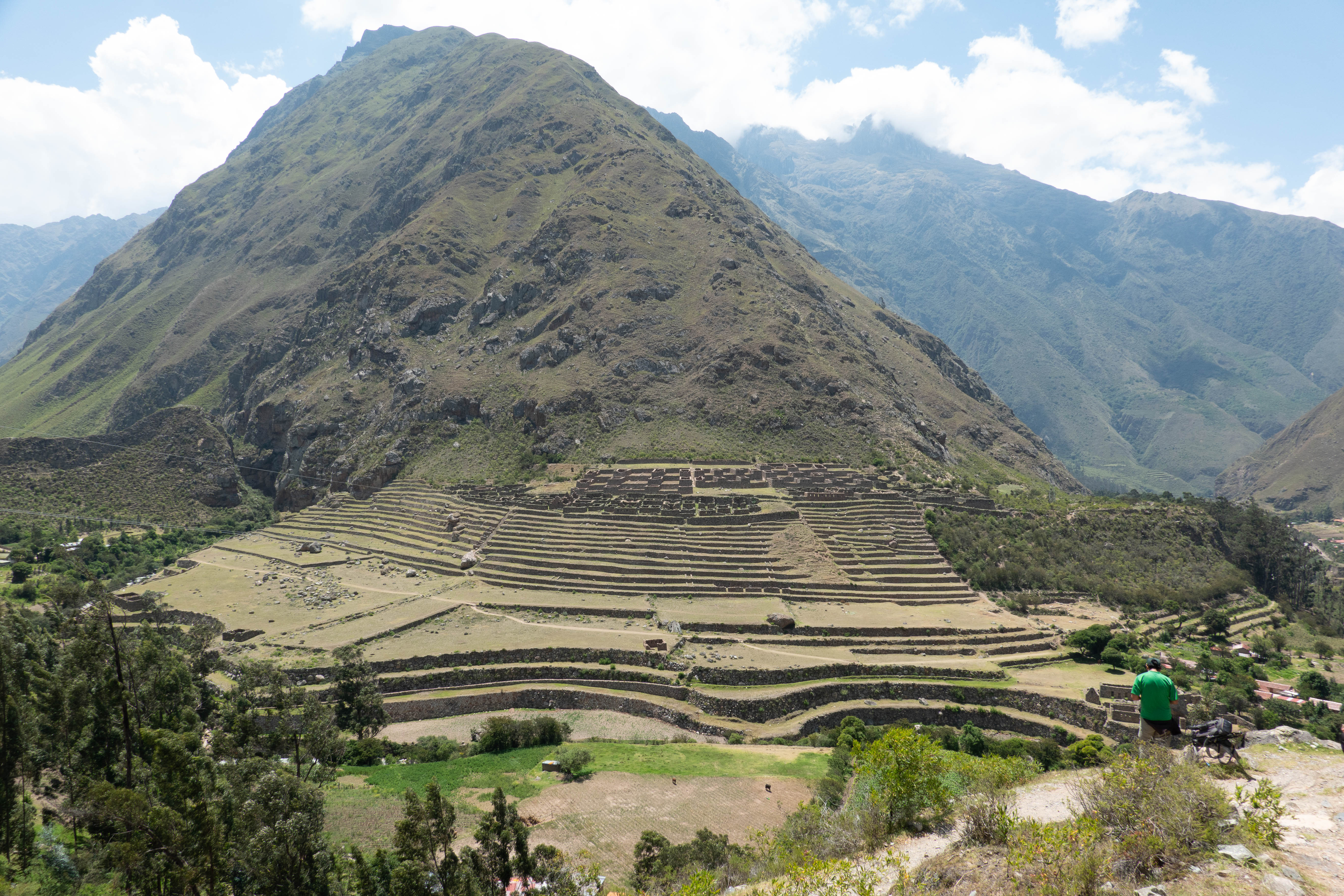 Patallacta as first viewed from Inca Trail